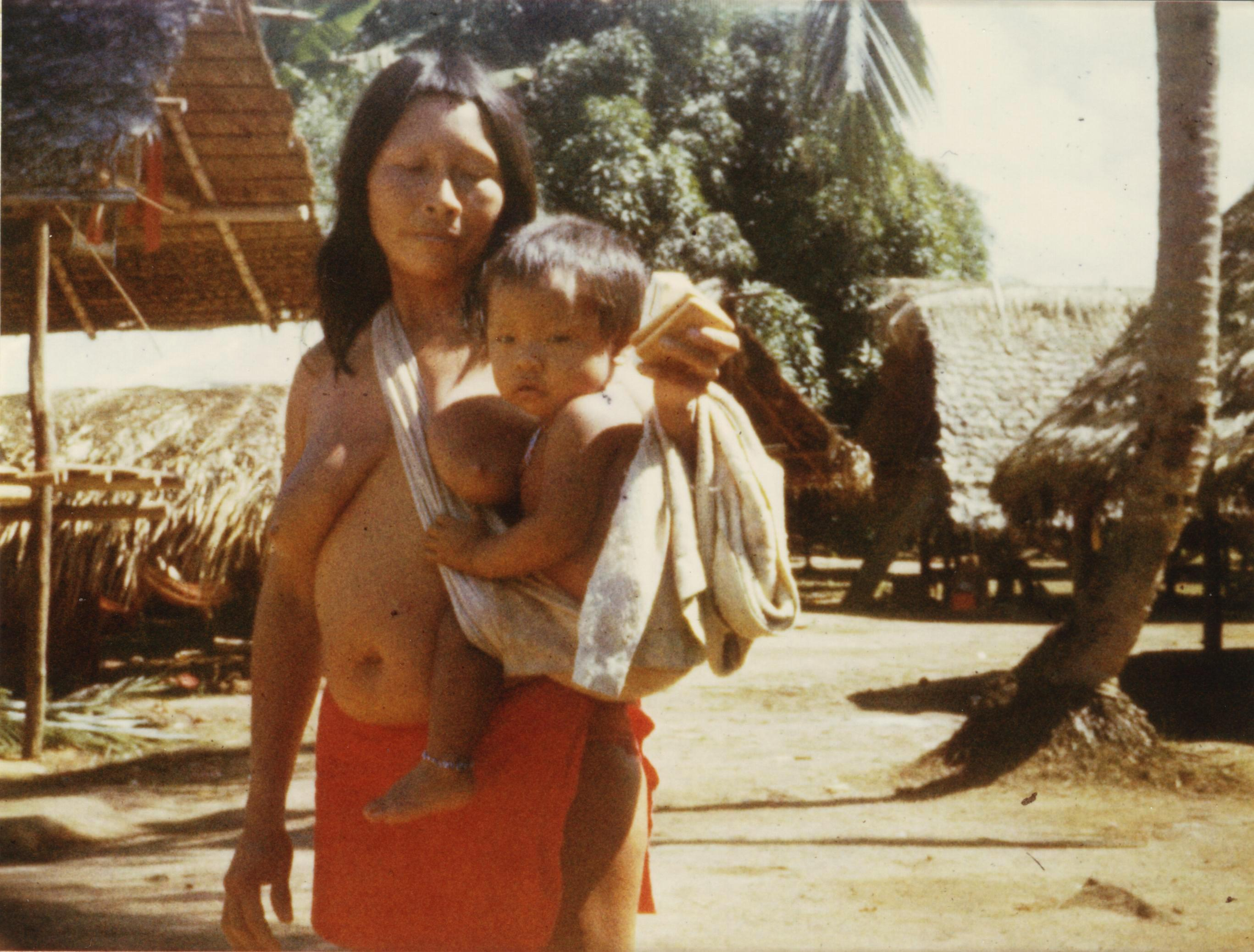 Photo taken in 1979. Daily life in the Wayana village of Antecume Pata in French Guiana. A mother and her son.